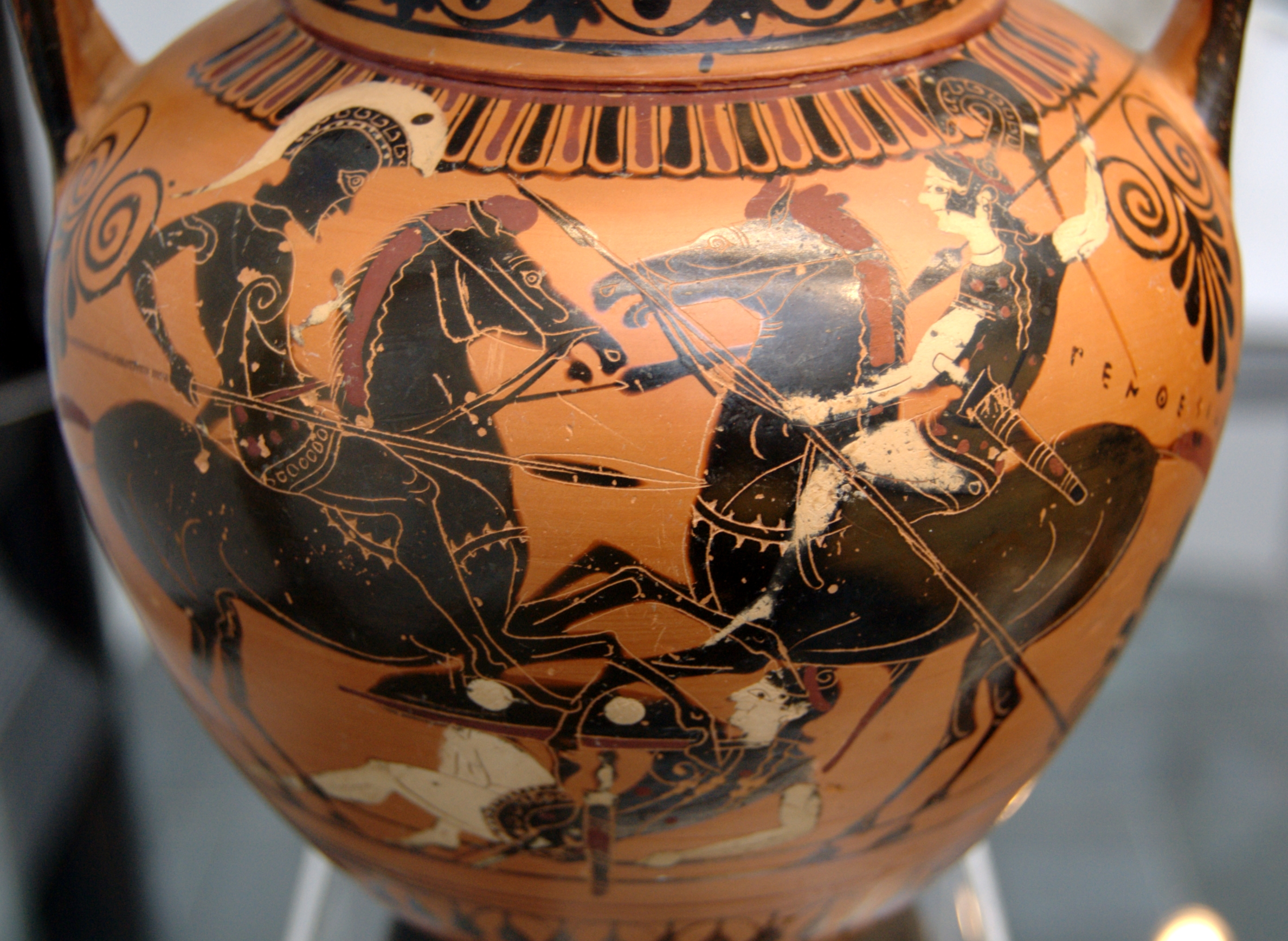 Achilles and Penthesilea. Side A of an Attic black-figure neck-amphora, ca. 520 BC. From Vulci.